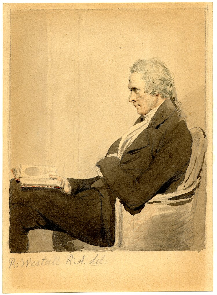 Portrait of biographer John Ireland, ca.1742 - 1808, seated in armchair, in profile to left, with book in his lap Pen and grey ink with grey wash, touched with watercolour. 165 x 120 mm